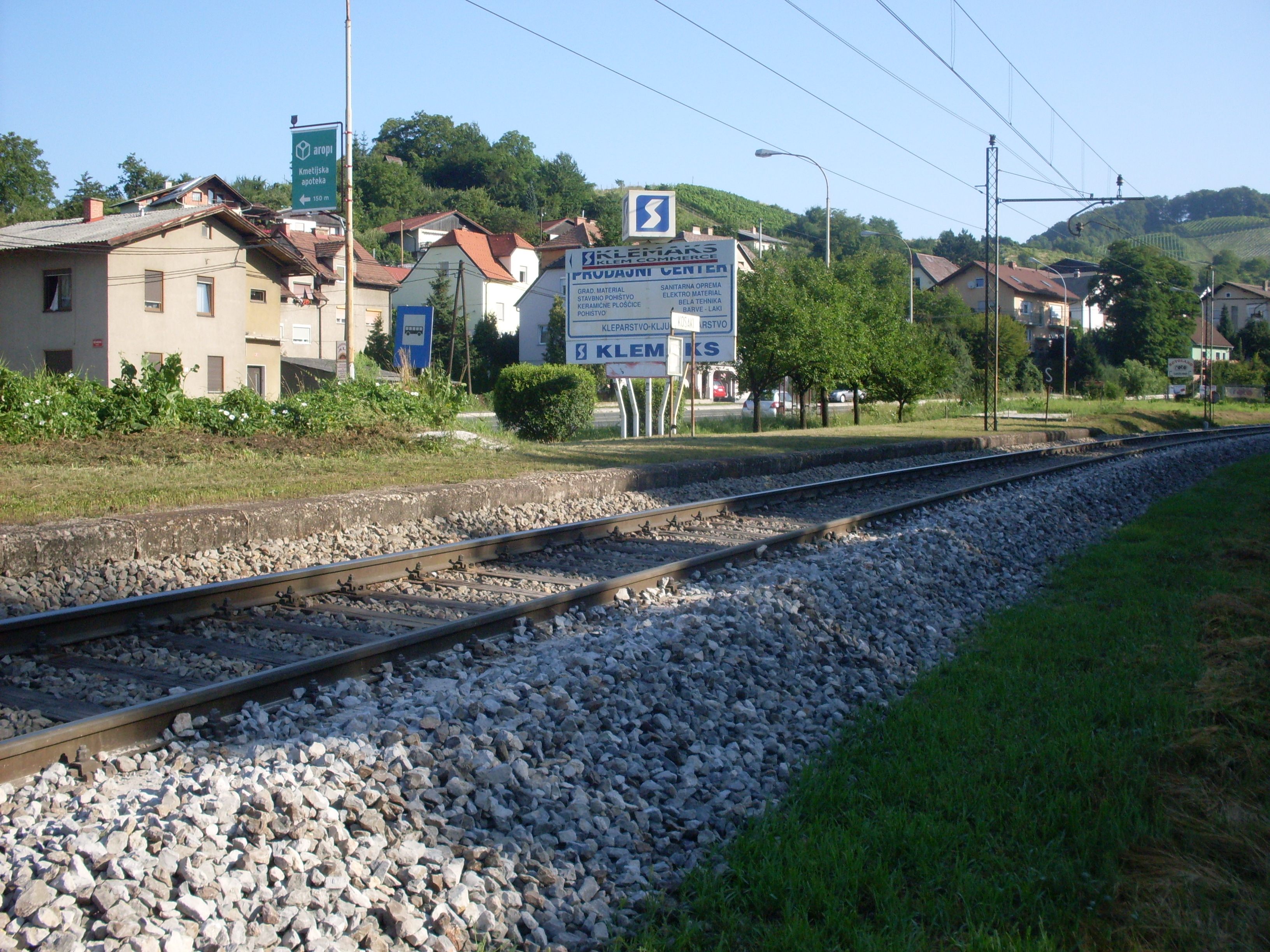 Railway halt Košaki, actually located in the village of Pekel.